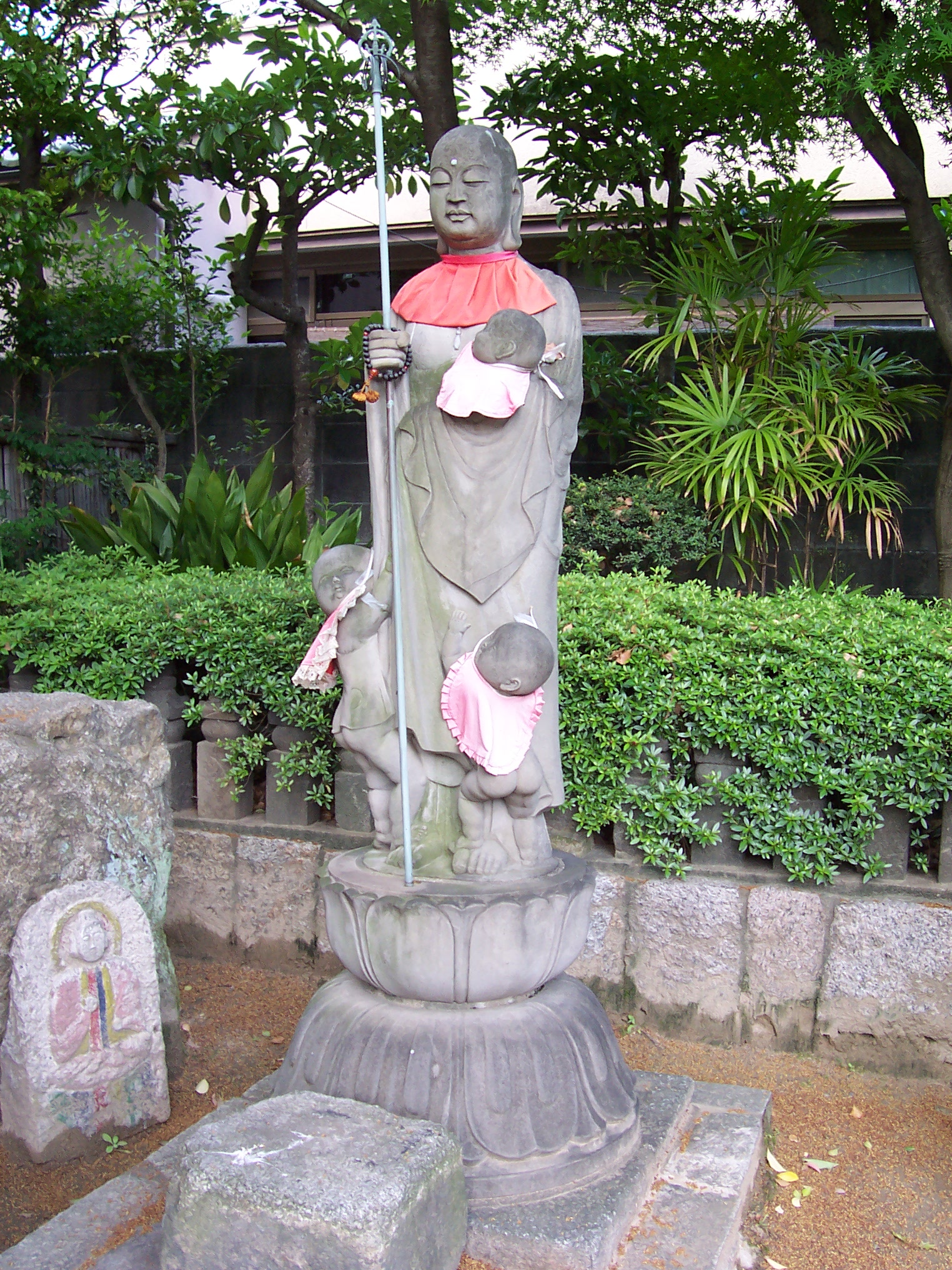 Japanese statues of the Mizu-ko Jizo, protector of children, have children in various poses around them, clinging to their robes, holding on to the staff for support or held securely in Jizo's arms.